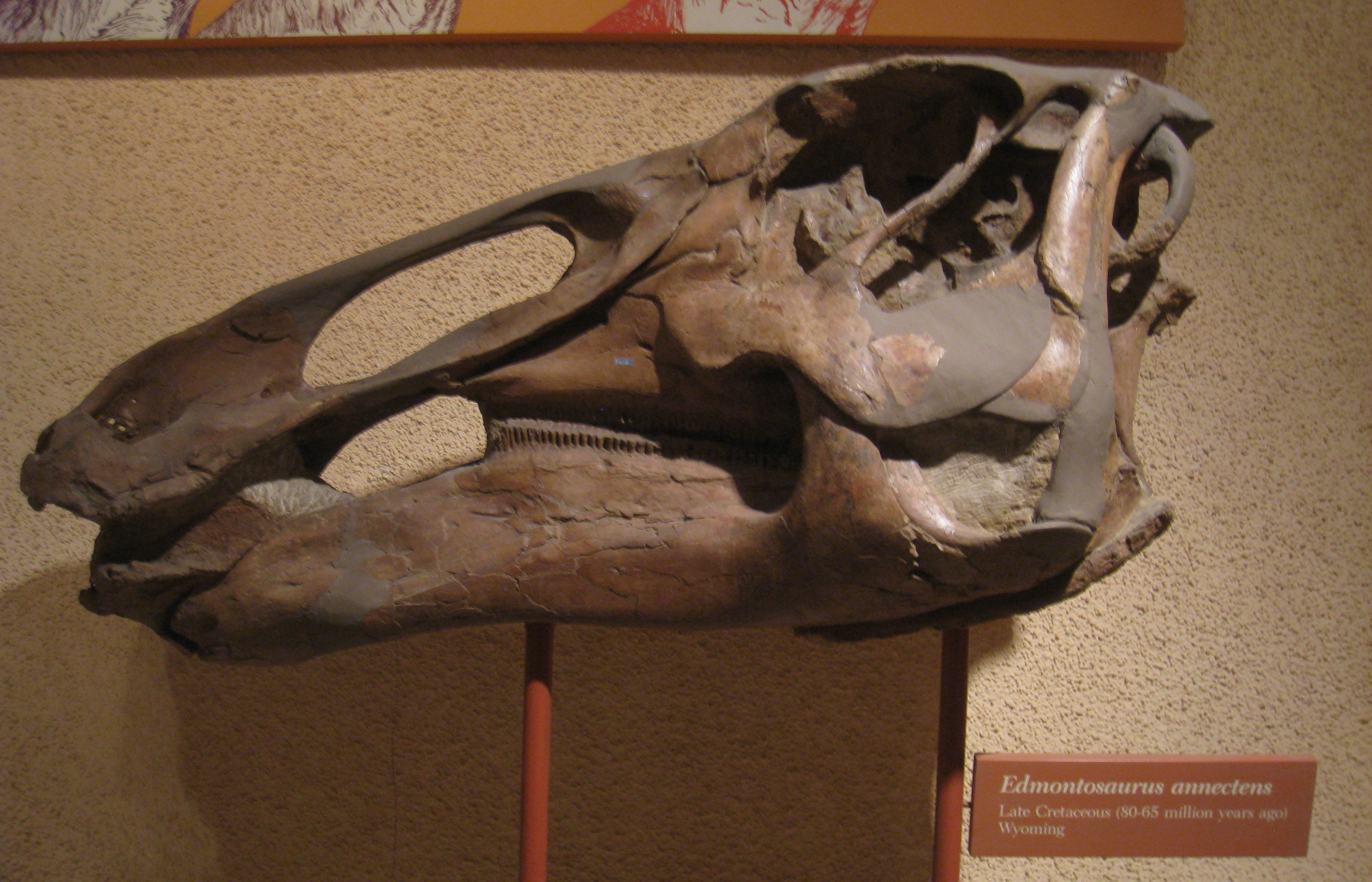 Edmontosaurus annectens fossil specimen USNM 3814 in the National Museum of Natural History, Smithsonian Institution, Washington, DC, USA.